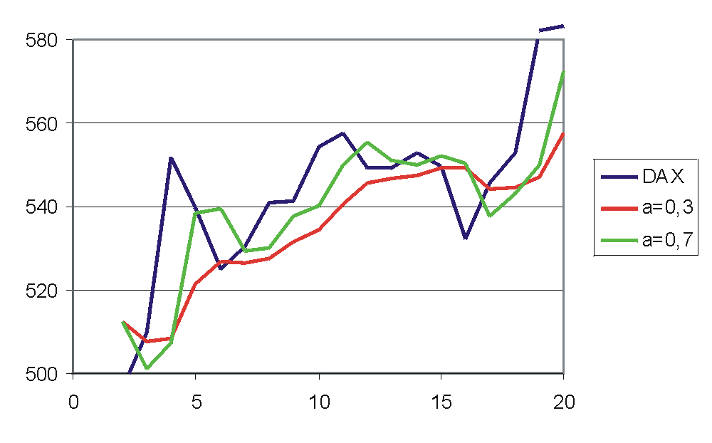 Exponential smoothing: Prediction of stocks